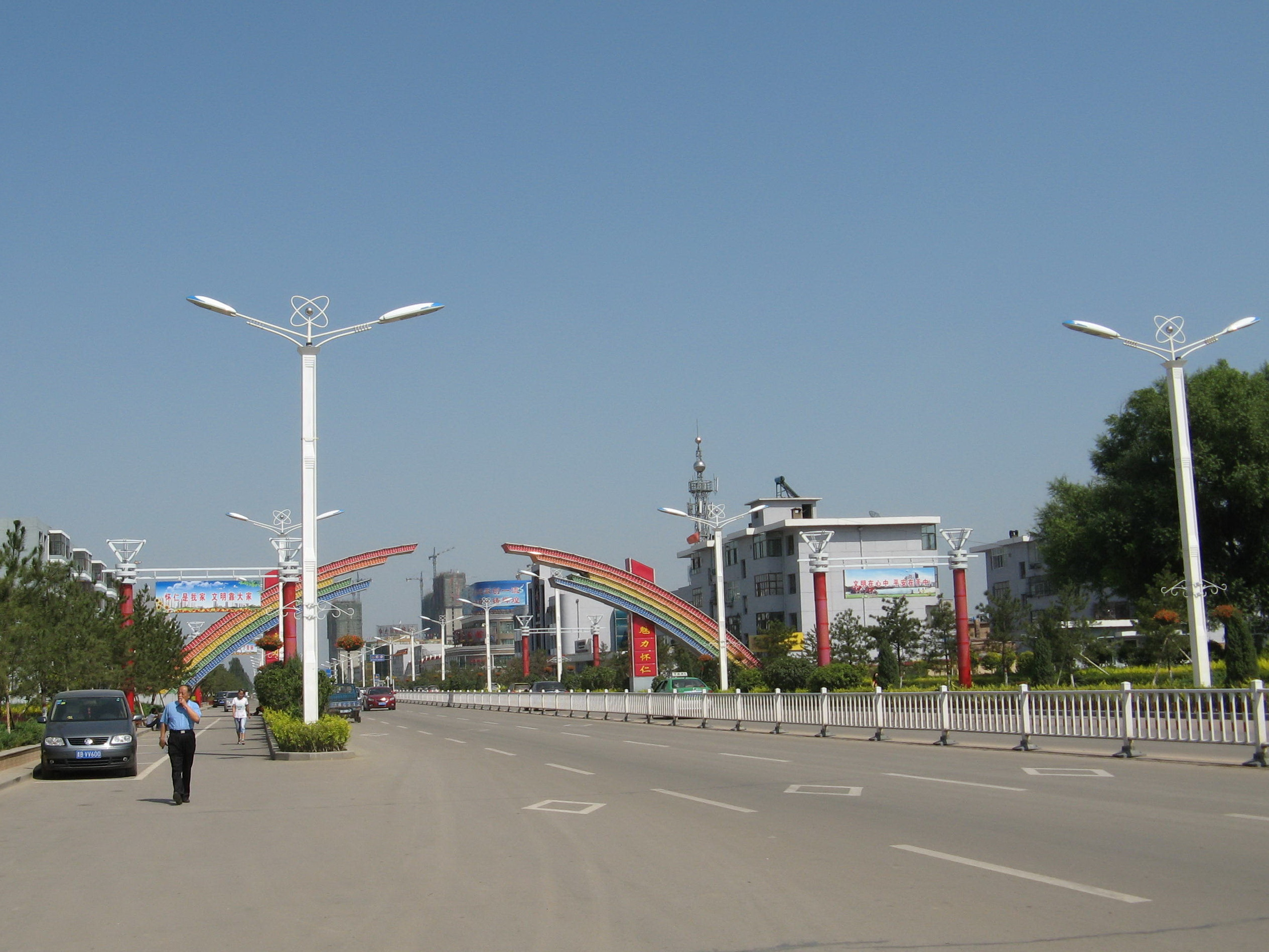 East Yingbin Street, Huairen, Shanxi, China